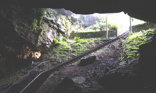 Dunmore cave, County Kilkenny, once reputed the darkest place in Ireland and home of the giant mouse-king Luchtigern